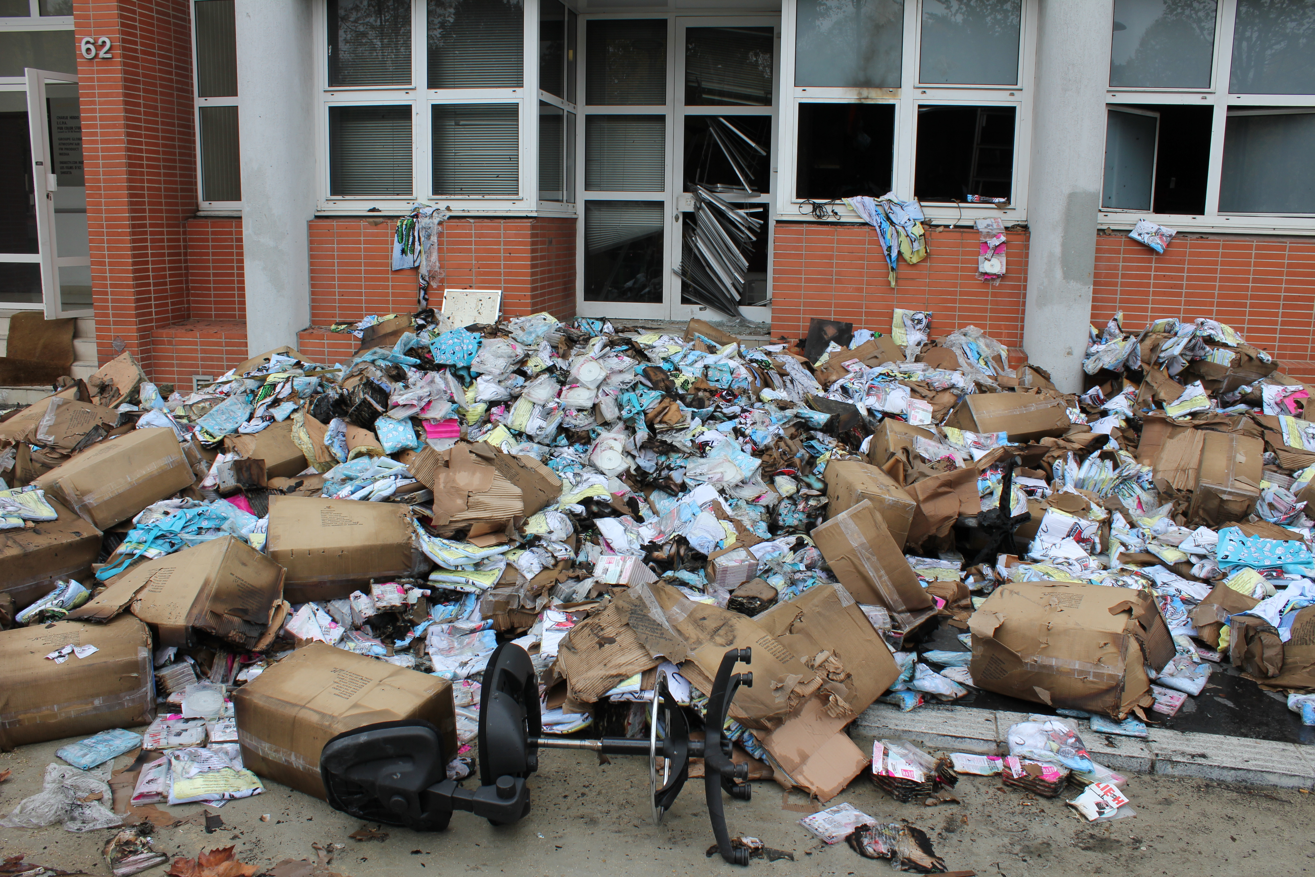 After the fire of the offices of the satirical French magazine Charlie Hebdo, November 2 2011, 62 boulevard Davout, Paris, France.